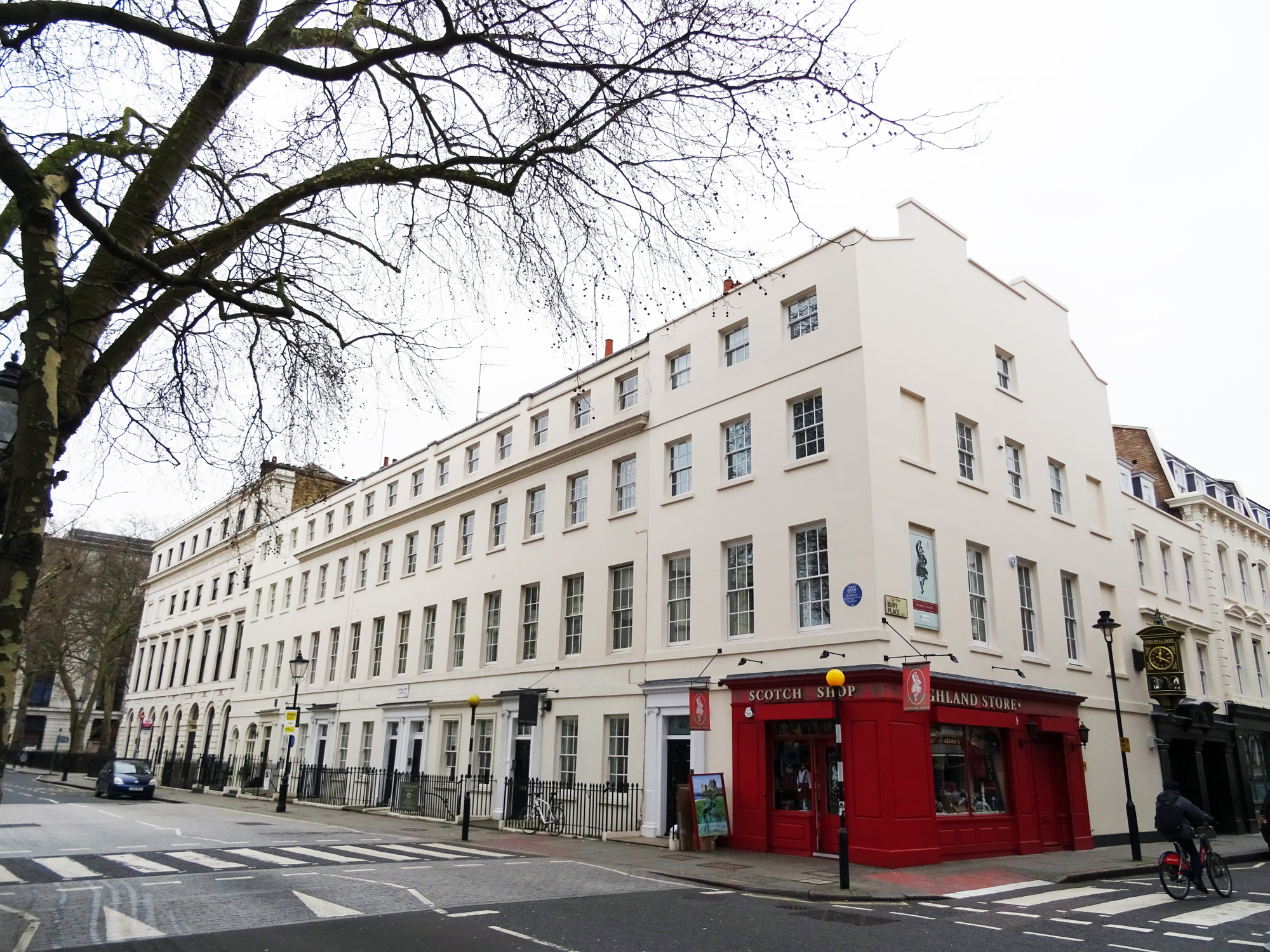 JOHN NASH 1752-1835 Architect Designed this terrace and lived here - 66 Great Russell Street Bloomsbury London WC1B 3BN